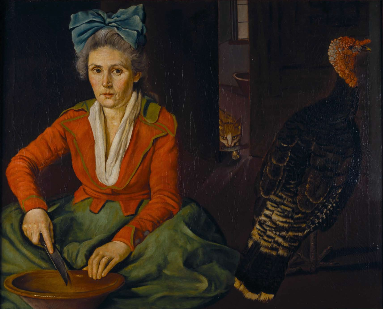 Woman and Turkey (1792), by the Majorat of Setúbal